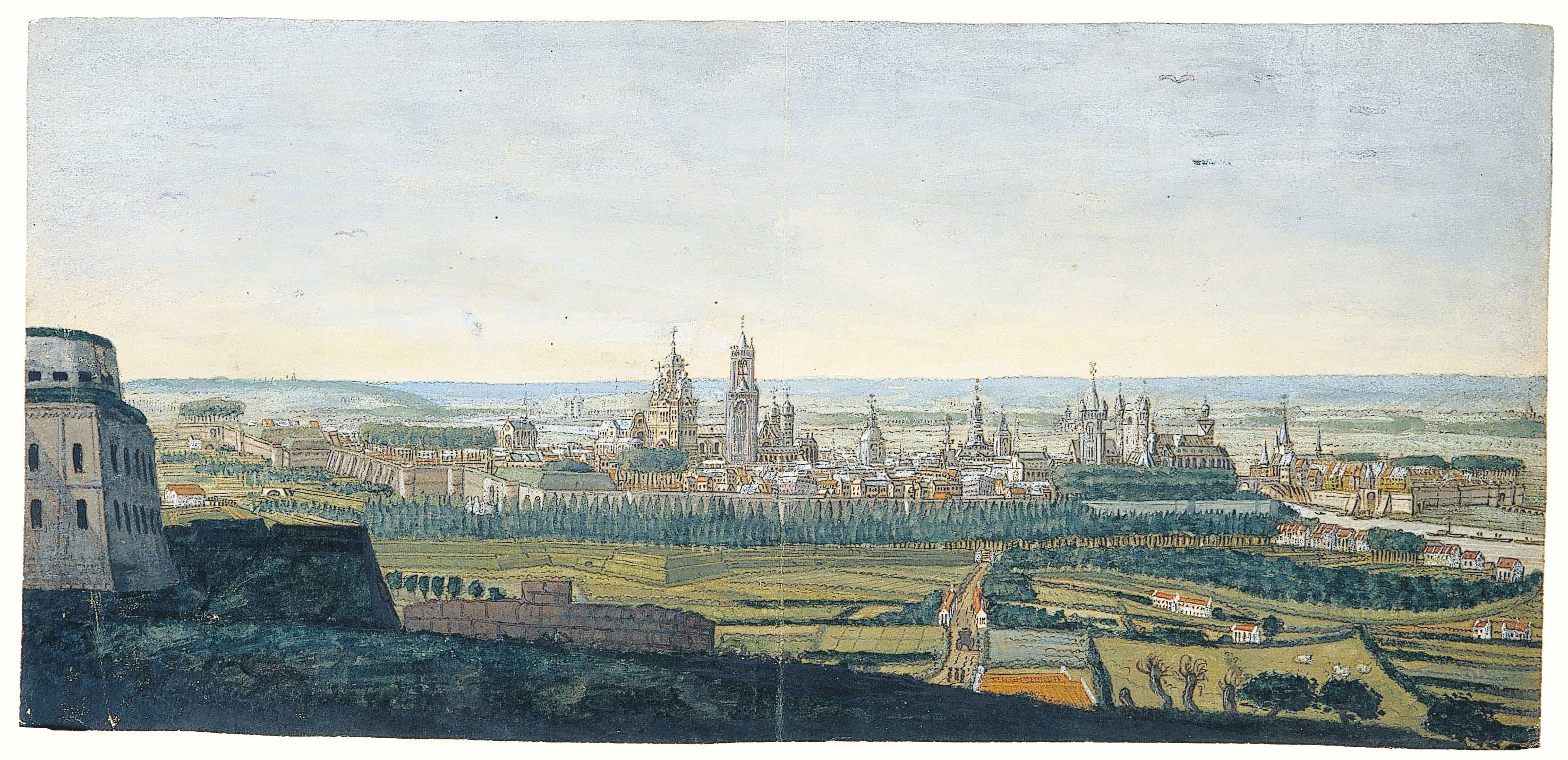 Panorama of Maastricht, Netherlands (at the time: France), as seen from the Fortress St Peter on Mount Saint Peter. Coloured drawing by an unknown artist, around 1804.